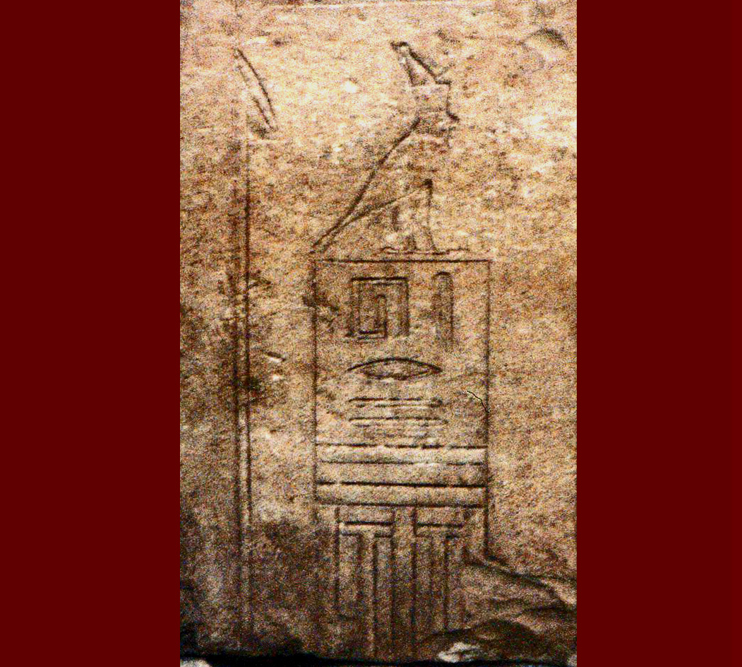 Serekh of Intef I inscribed posthumously for him by Mentuhotep II in Tod. Limestone, Cairo. Egyptian Museum.